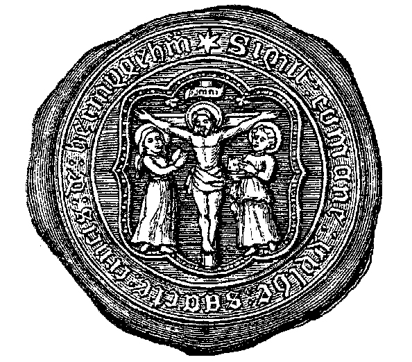 The Seal of the Guild of the Holy Cross, Birmingham, as illustrated in William Hutton's History of Birmingham of 1782.